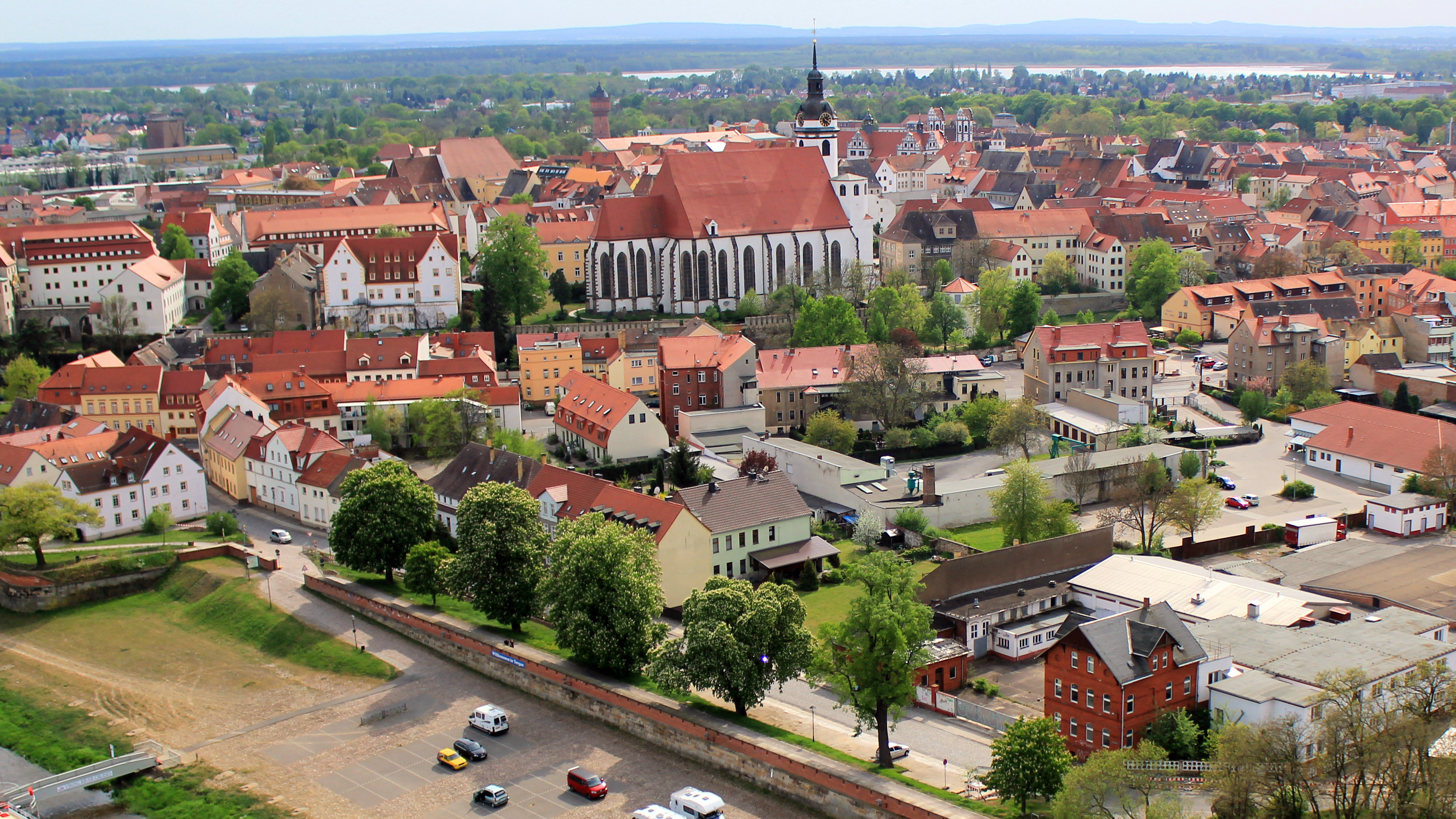 KAP (Kite Aerial Photography)